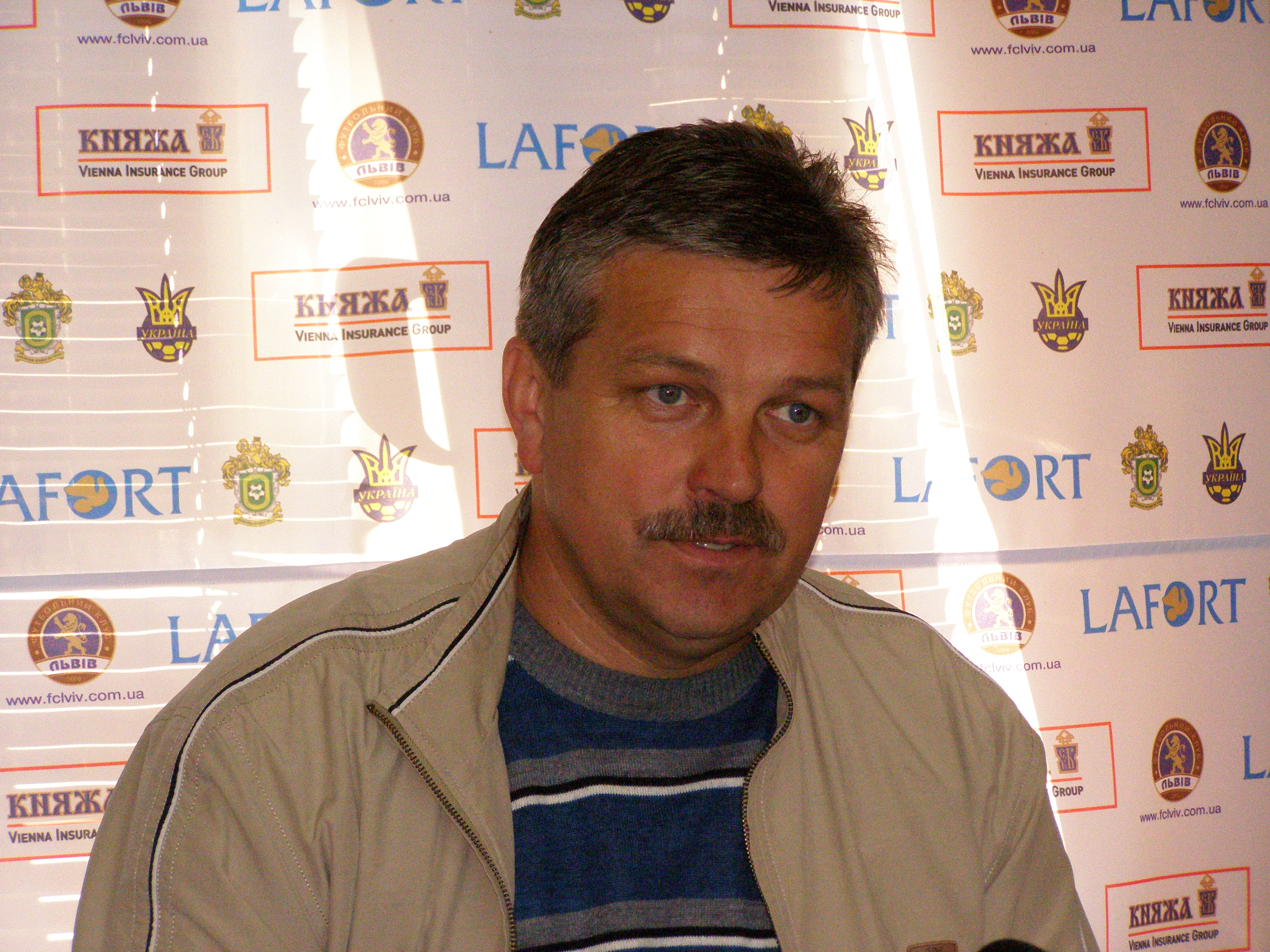 Viktor Riaško, an Ukrainian football coach